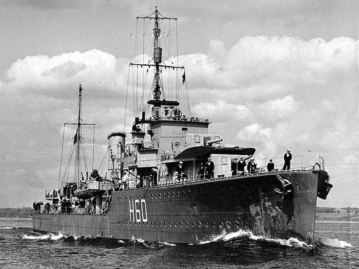 Canadian destroyer HMS Ottawa (H60). She was originally the Royal Navy C class destroyer HMS Crusader (H60) from 1932-1938.